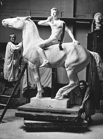 Anne Marie Carl Nielsen with the Carl Nielsen Monument in her studio at Frederiksholms Kanal 28A in Copenhagen, Denmark